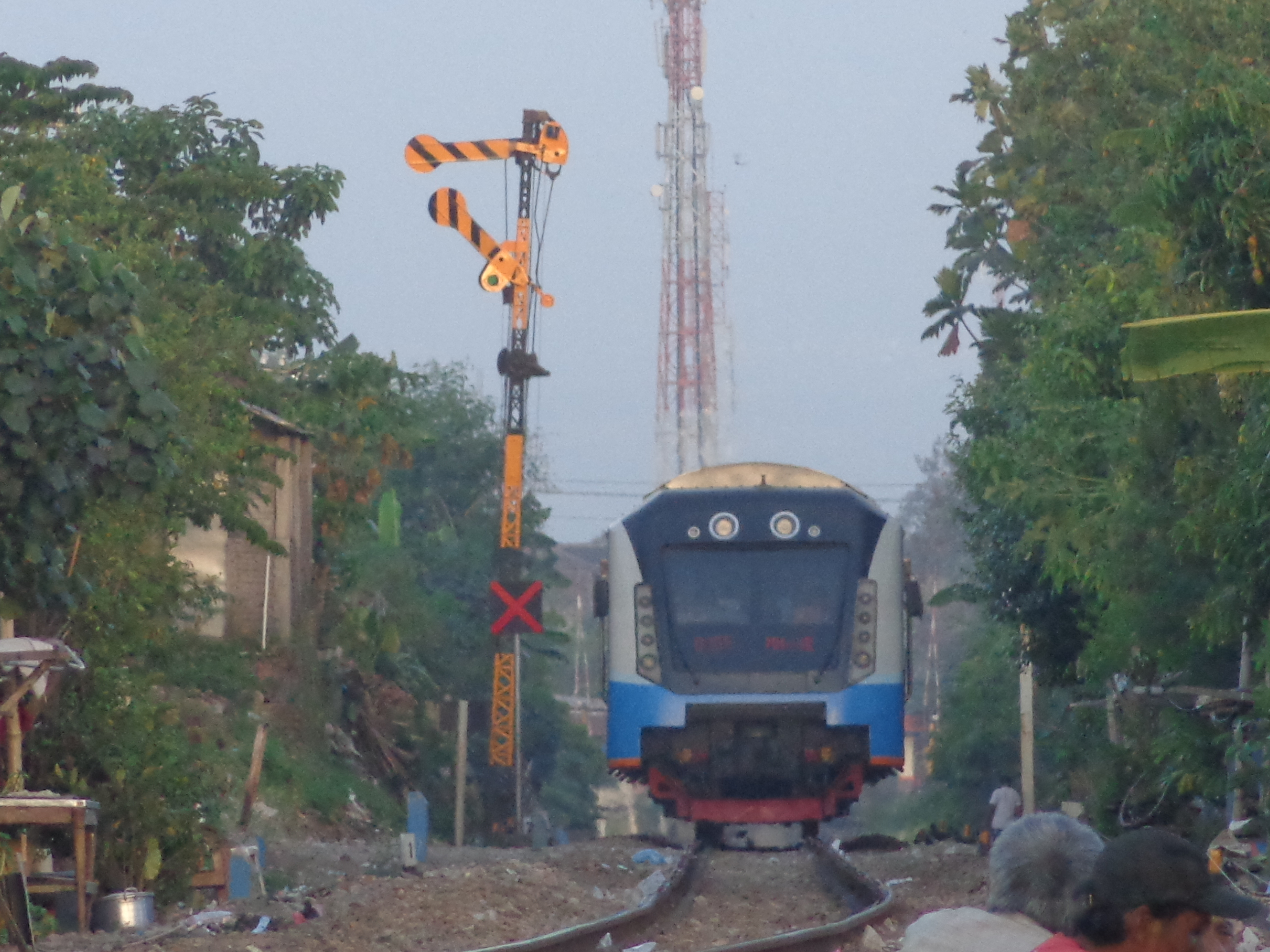 An Indonesian made DMU in service as Madiun Jaya train bound for Yogyakarta Tugu from Madiun passes an entry semaphore signal near Solo Jebres Station in Surakarta, Central Java, Indonesia, October 2013.